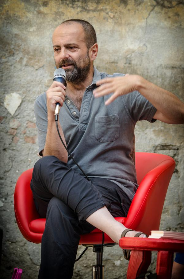 Luca Rastello presents his latest book "I Buoni"